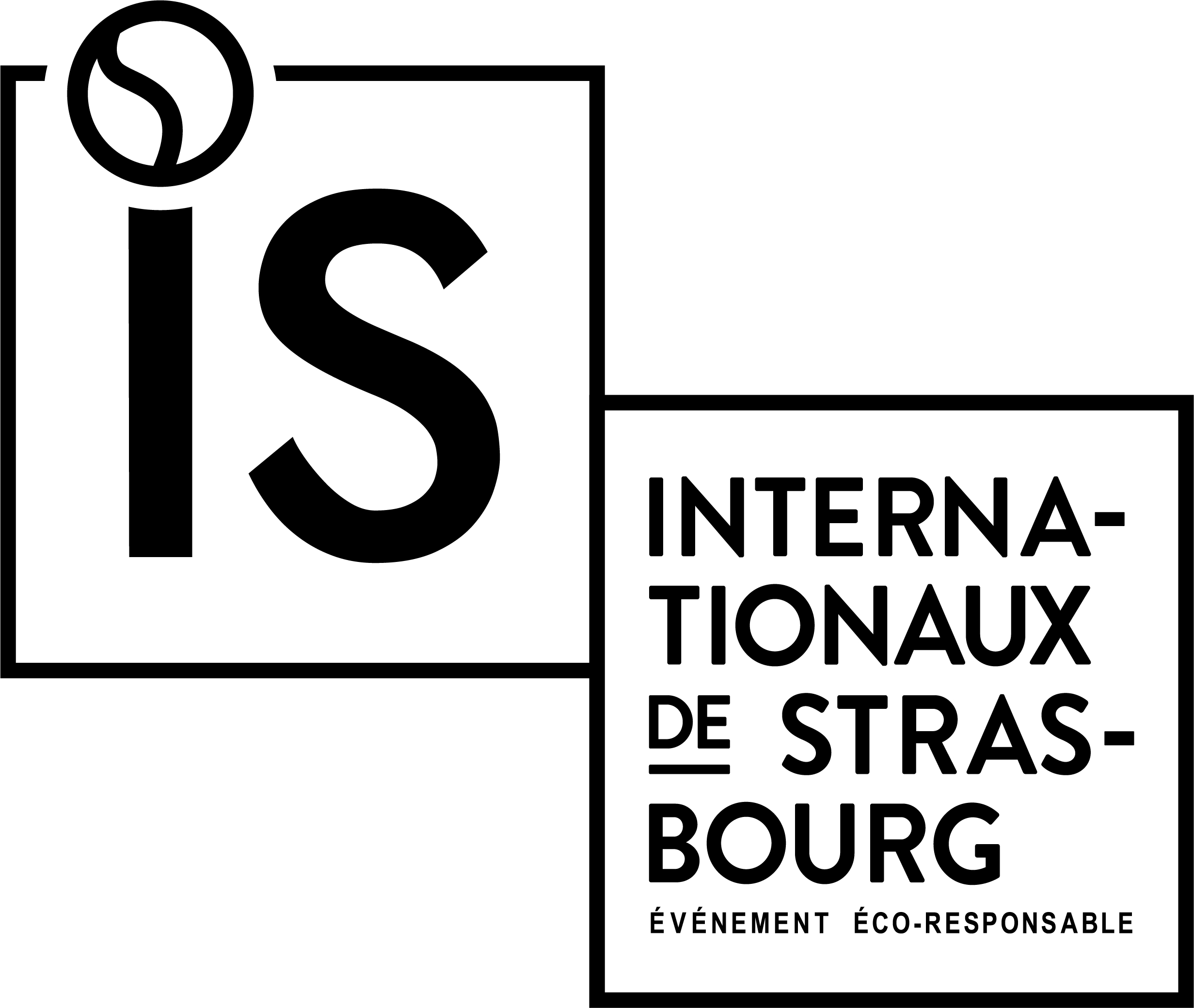 Logo WTA Strasbourg, premier tournoi féminin en France, 250.